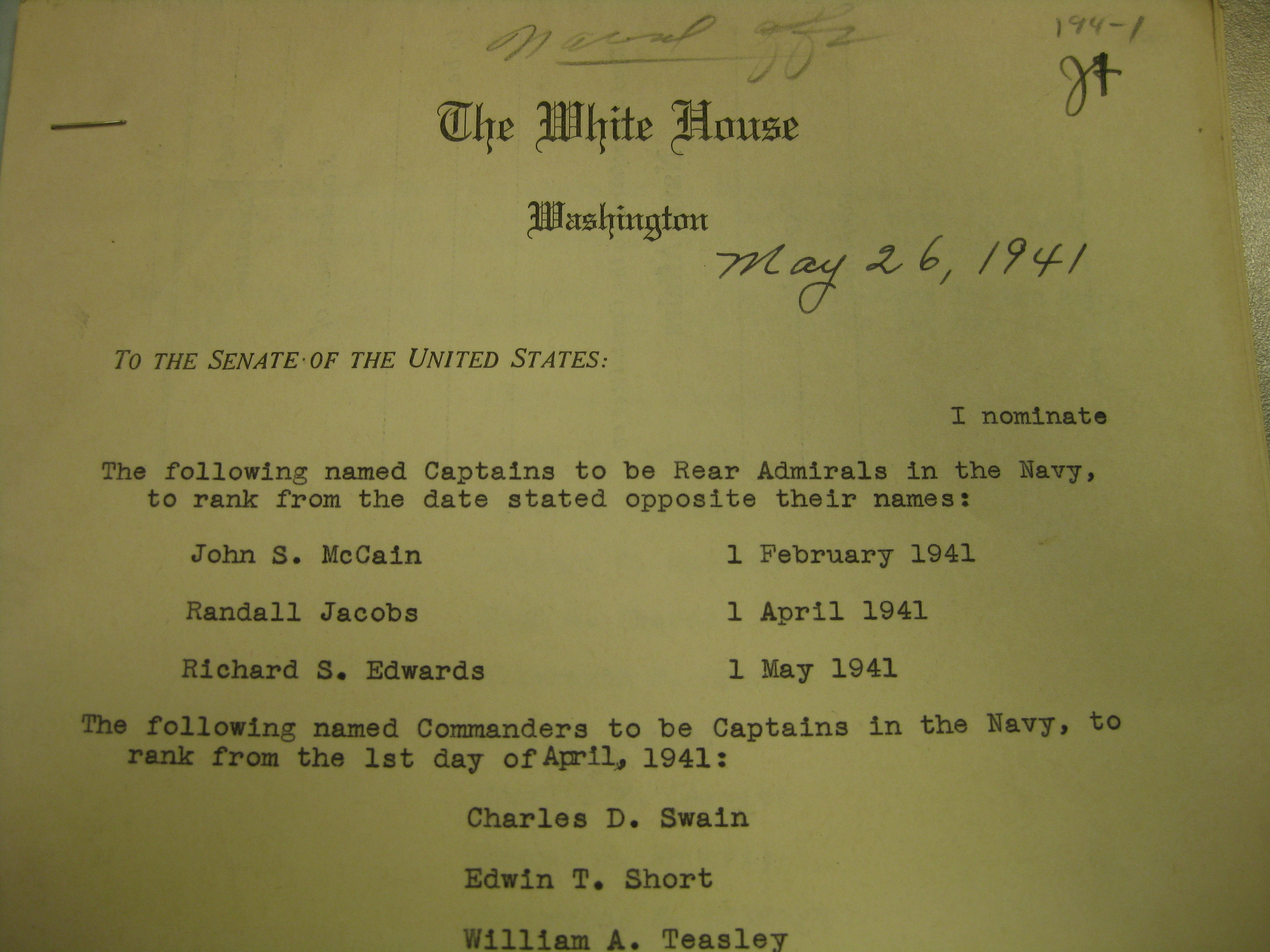 Franklin Roosevelt's nomination of John S. McCain to serve as a Rear Admiral in the U.S. Navy. Courtesy of the National Archives and Records Administration.